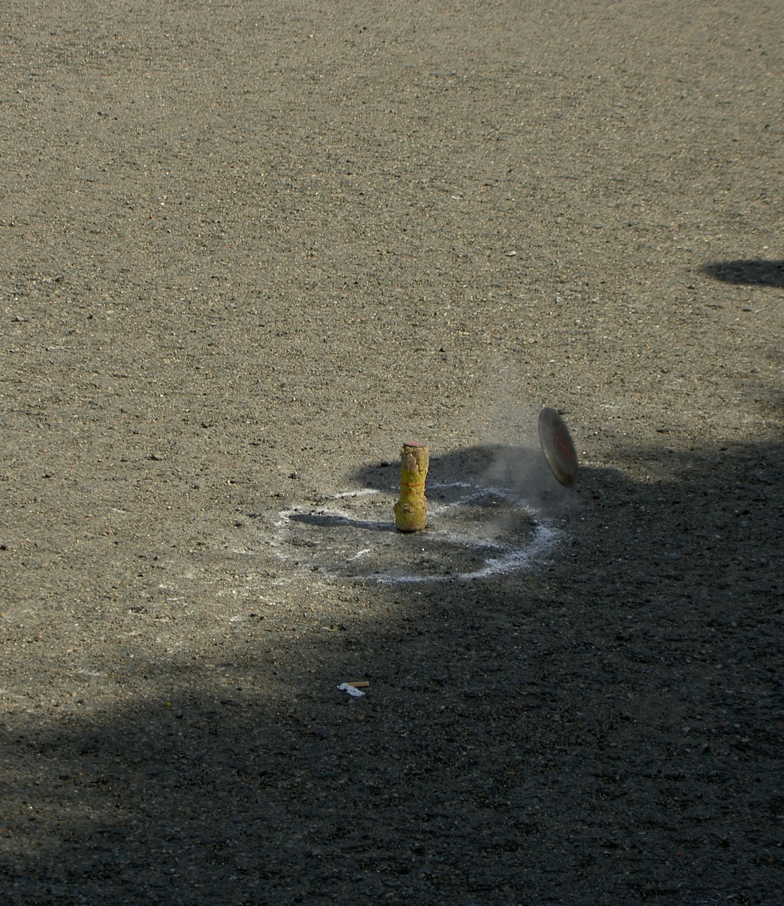 Target of the French game "Galoche bigoudène". A puck just hits the target (Lesconil, France).